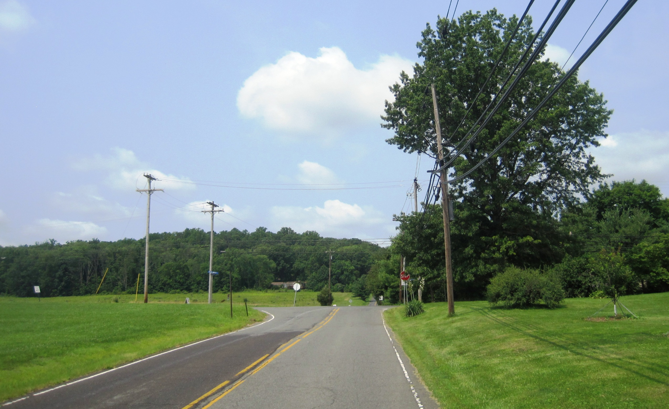 Photo of the unincorporated community of Ackors Corner, New Jersey within Hopewell Township, Mercer County. Photo taken along westbound Pennington-Harbourton Road (County Route 623) approaching Bear Tavern Road (CR 579).